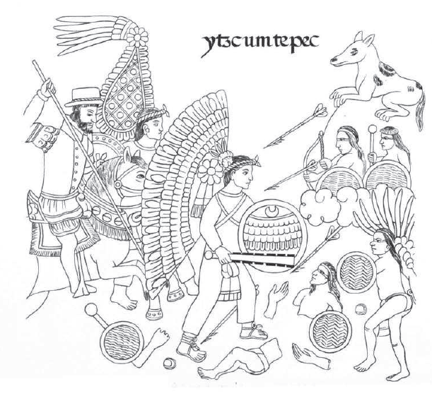 Page from the 16th-century Lienzo de Tlaxcala (reproduction from 1892) showing the Spanish conquest of Ytzcumptepec (Escuintla, in Guatemala).